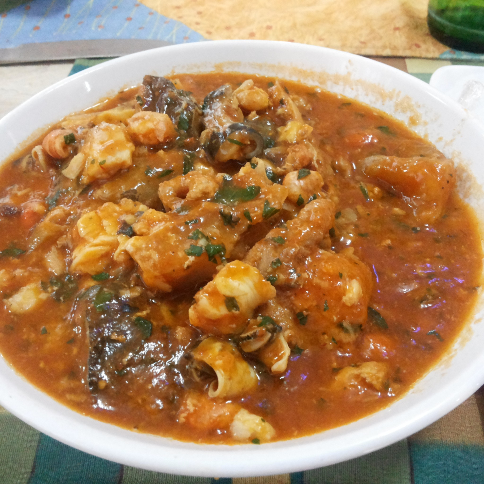 This soup is native to the riverine communities in Nigeria. It's traditionally made with whatever the fisherman catches, cooked with palm oil and thickened with garri (cassava meal). This is an image of food from Nigeria